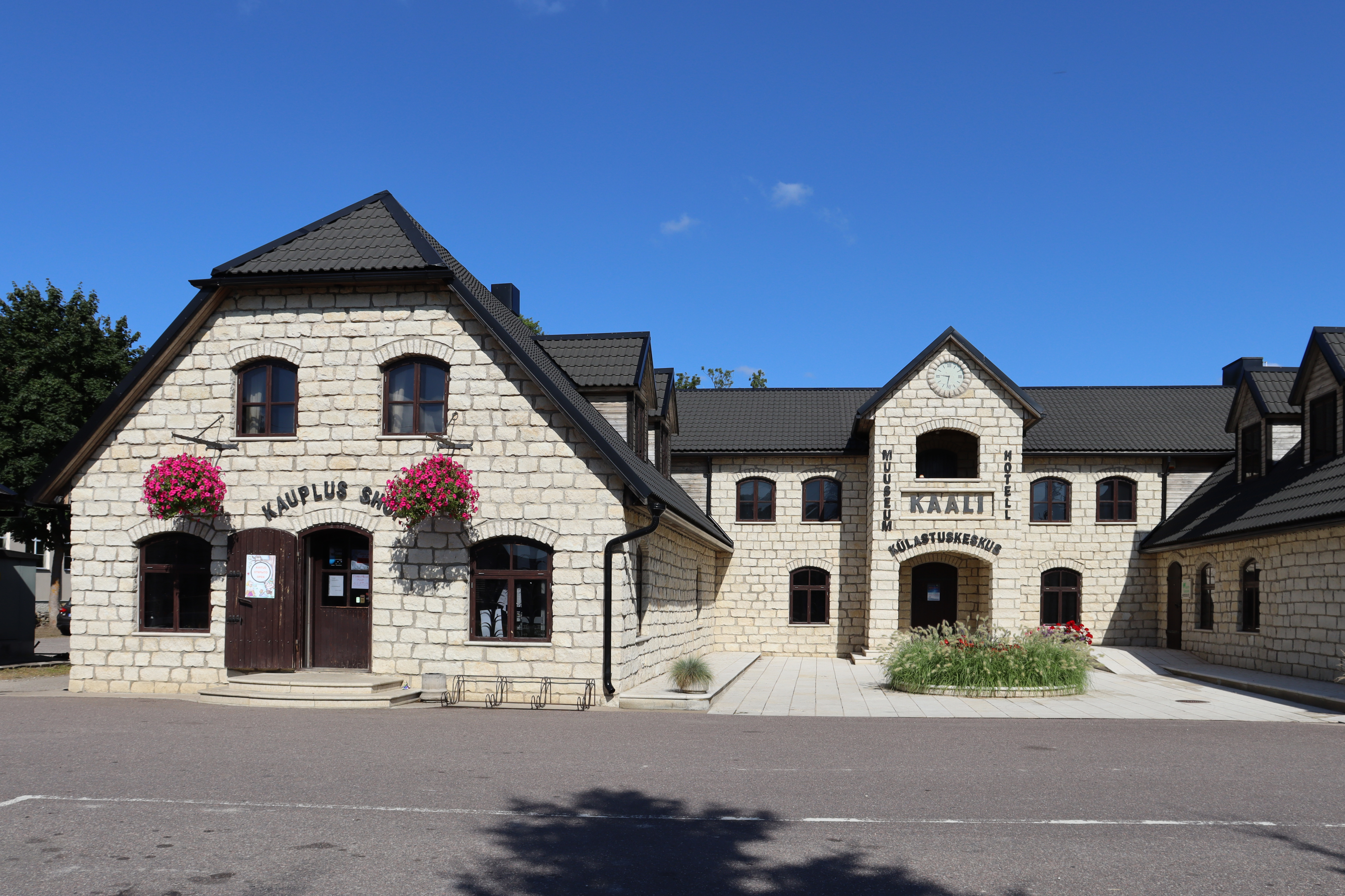 Kaali visitor centre, hotel, and meteorite museum. Estonia